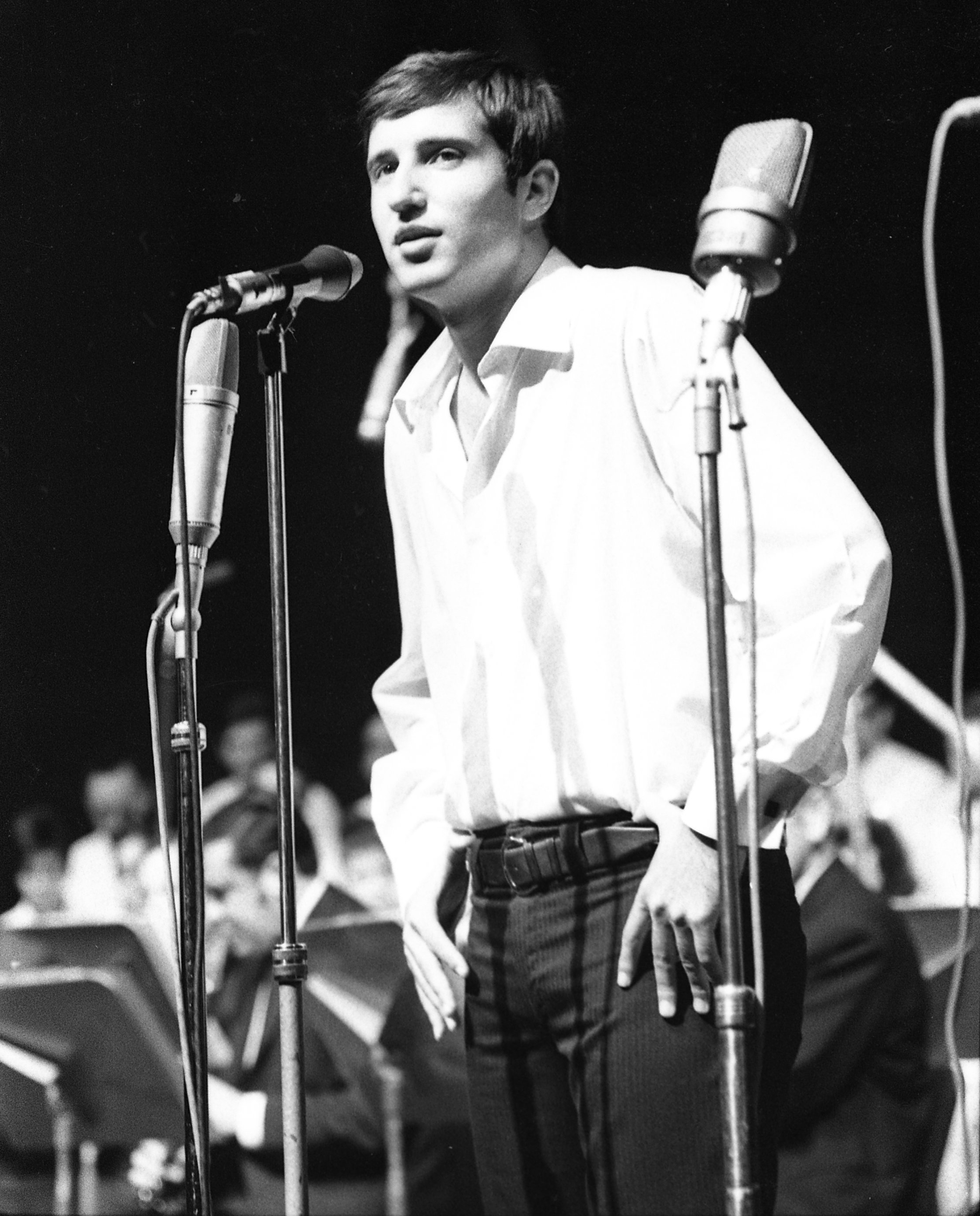 The First Hasidic Festival.